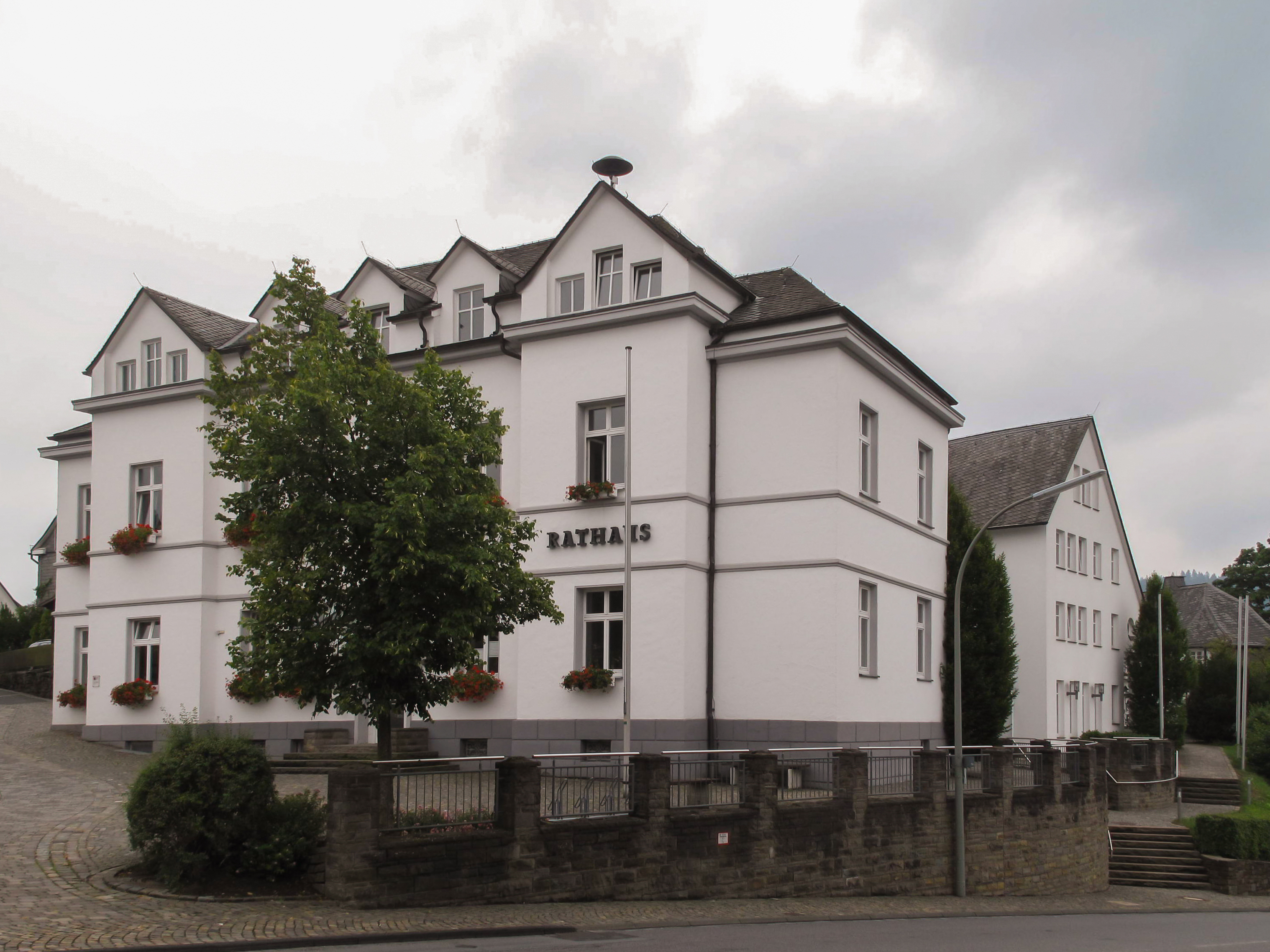 Schmallenberg, town hall